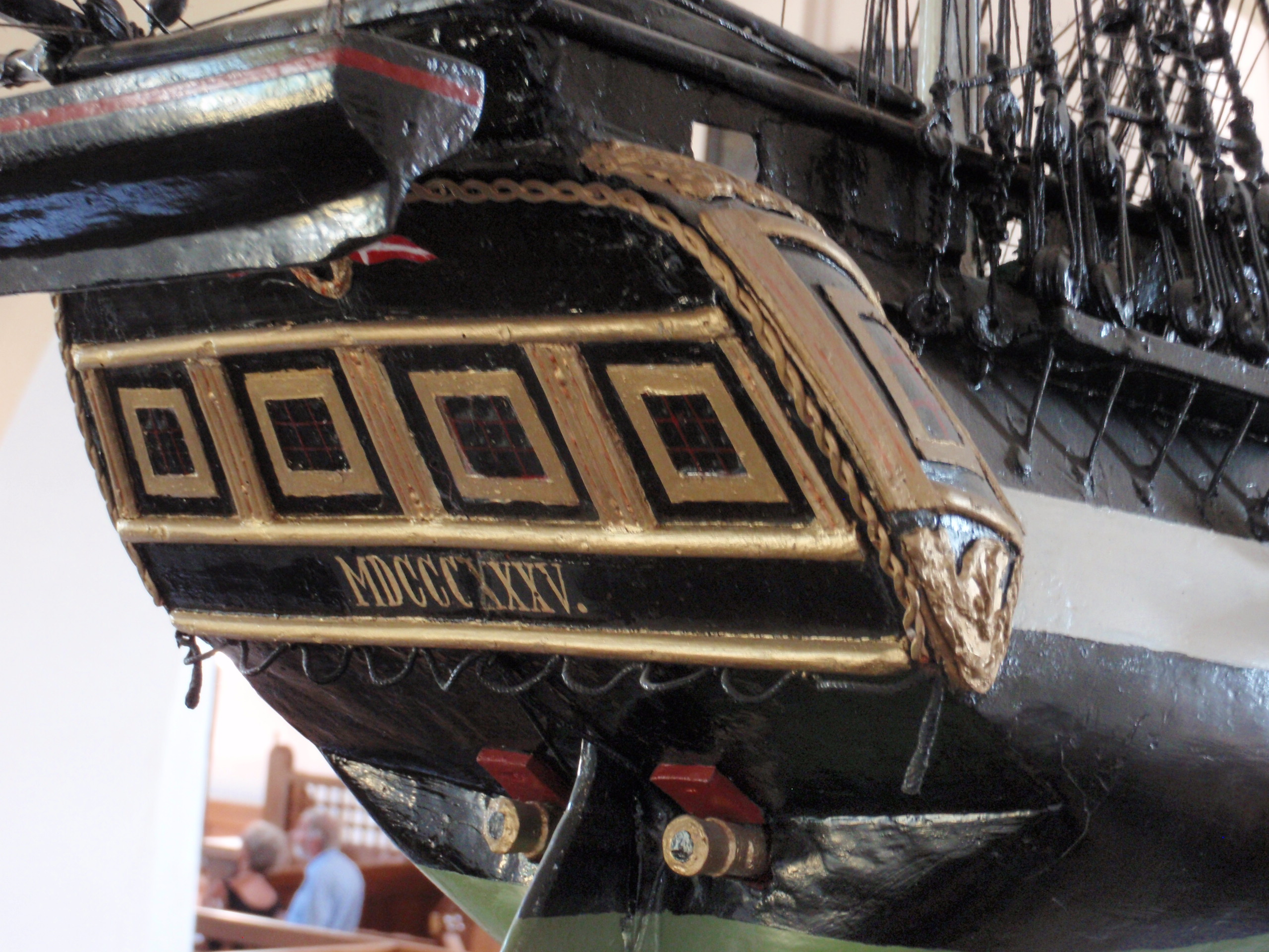 Model ship in Nysted Church